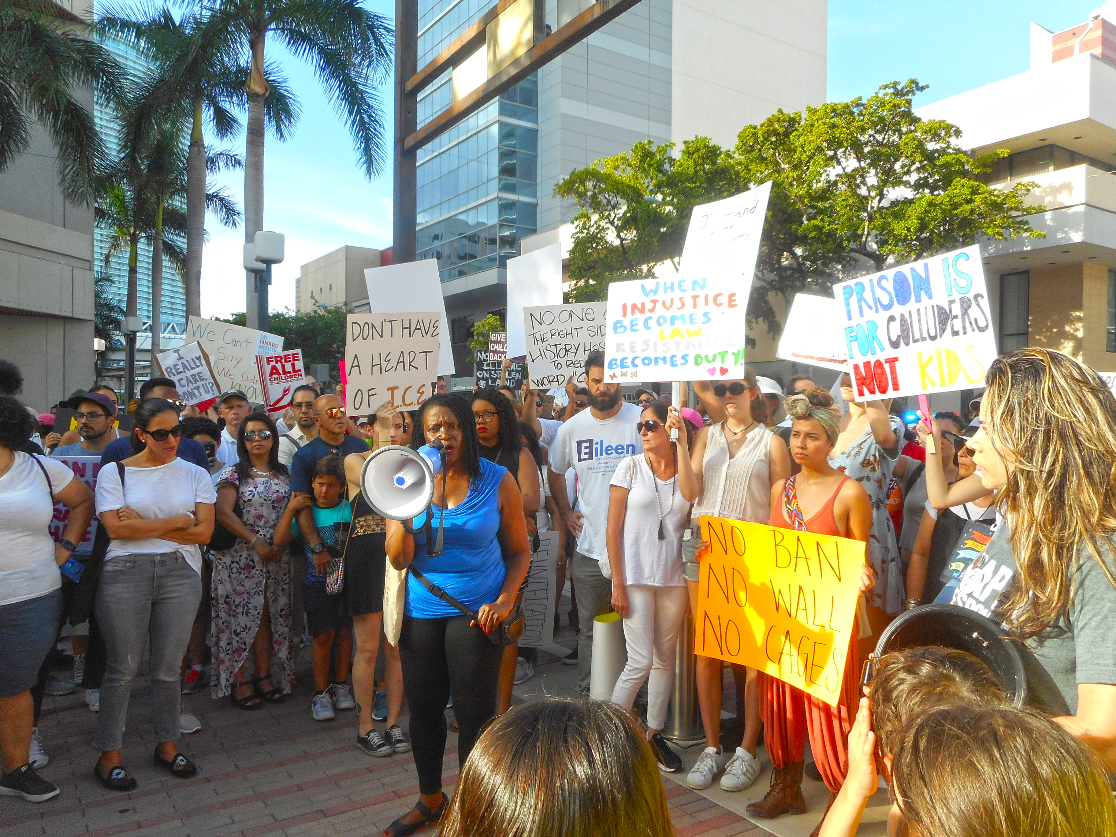 Anti Trump Family Separation Protests - Miami Dade College, Miami Florida